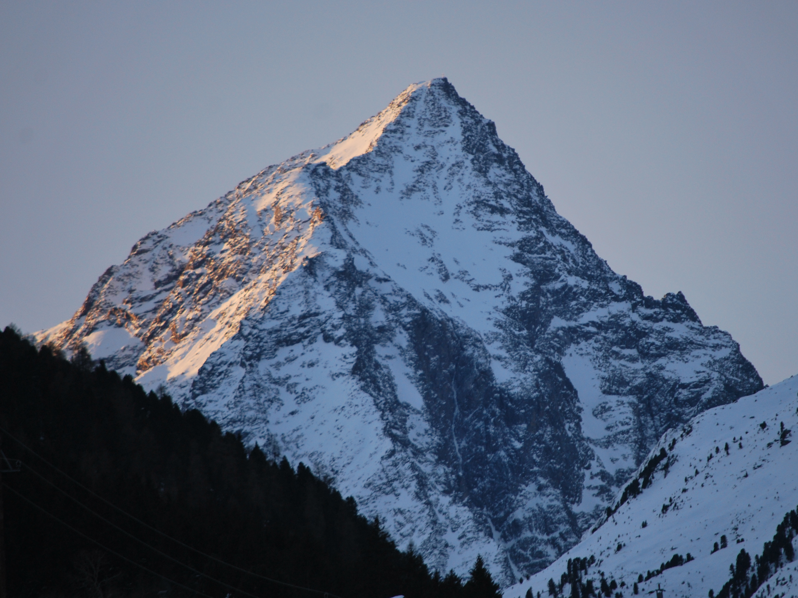 Lüsener Fernerkogel (3298m) from north (Gries im Sellrain)